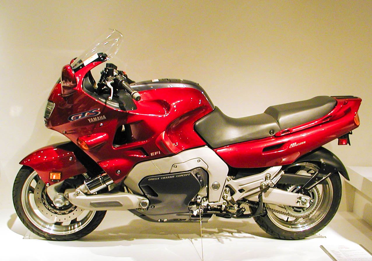 Barber Motorcycle Museum - Oct 22 2006 (87) Yamaha GTS1000